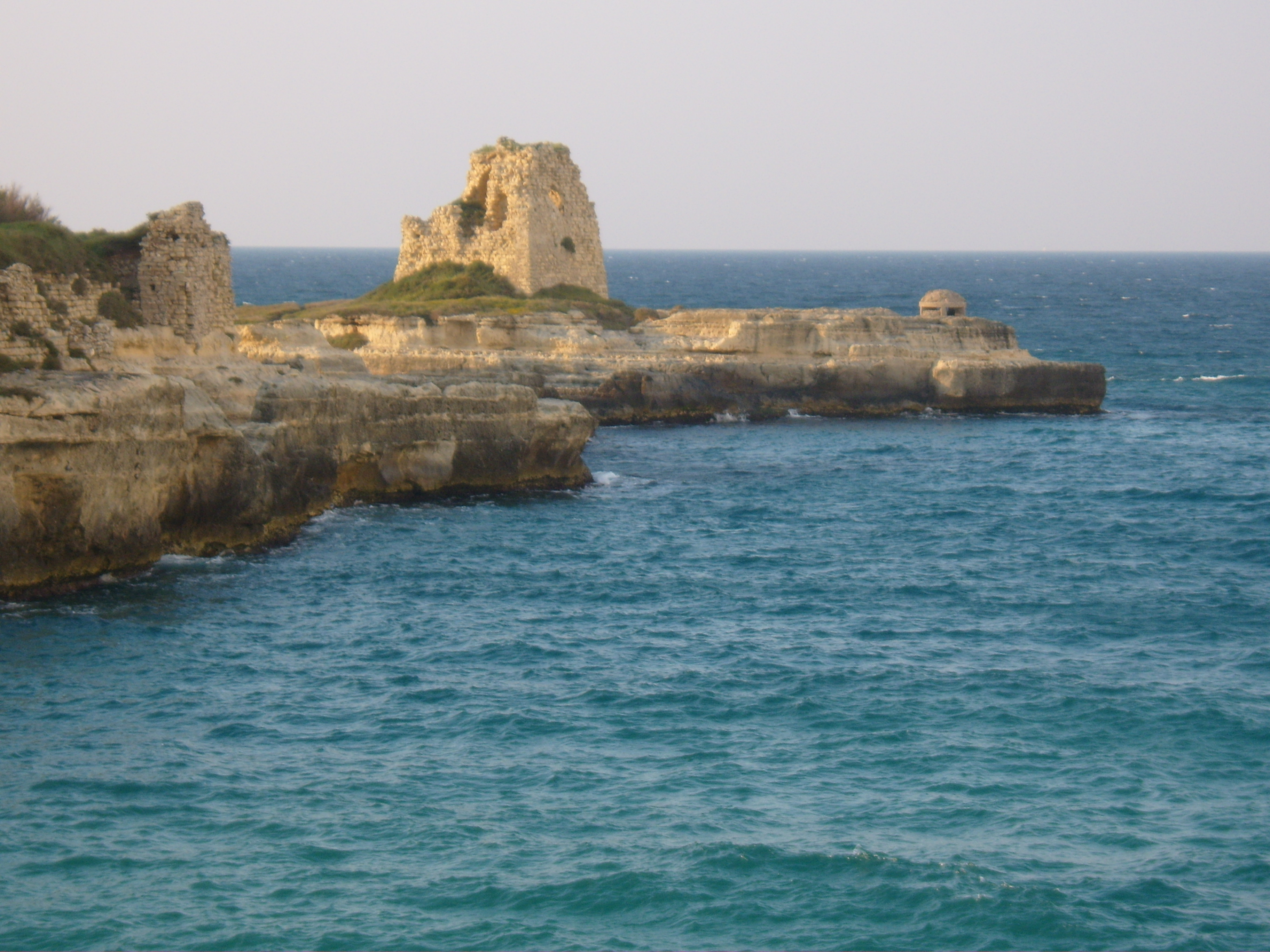 XVI century tower in Roca Vecchia, Adriatic sea. It is part of the town of Melendugno, Province of Lecce, Italy